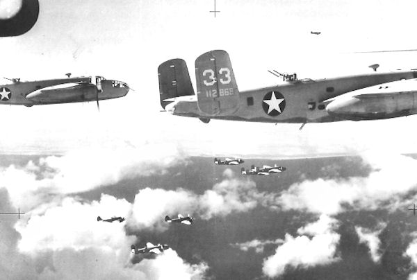 B-25C Mitchell 41-12863, 82d Bombardment Squadron in a mixed formation over Tunisia, 9 January 1943 with other 12th Bomb Group B-25s and RAF Baltimore IIIs to attack the Axis held Mareth Line.(USAAF Photo)